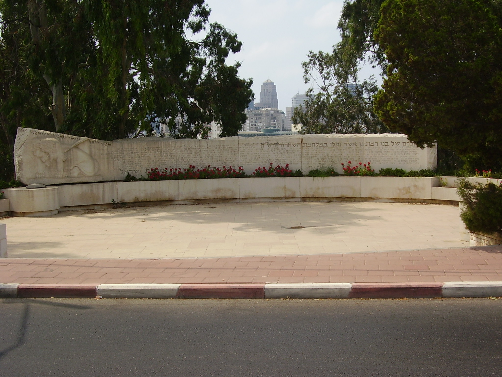 War of Independence Memorial in Ramat Gan.